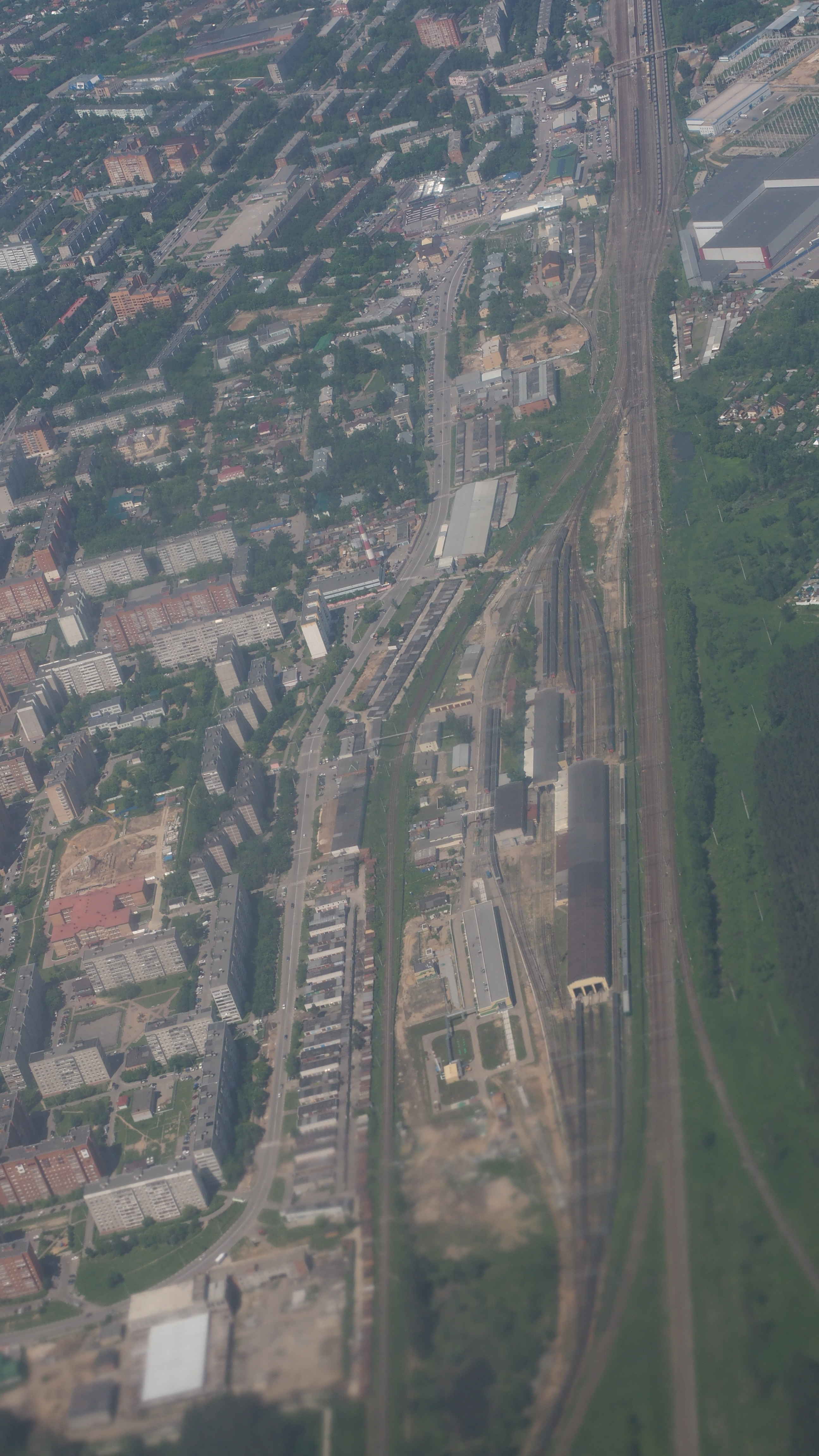 Domodedovo railway depot taken from plane Domodedovo - Astrakhan